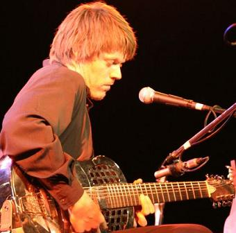 This is a photo of James Michael Thompson playing his one-of-a-kind 8 string baritone tricone resonator guitar.